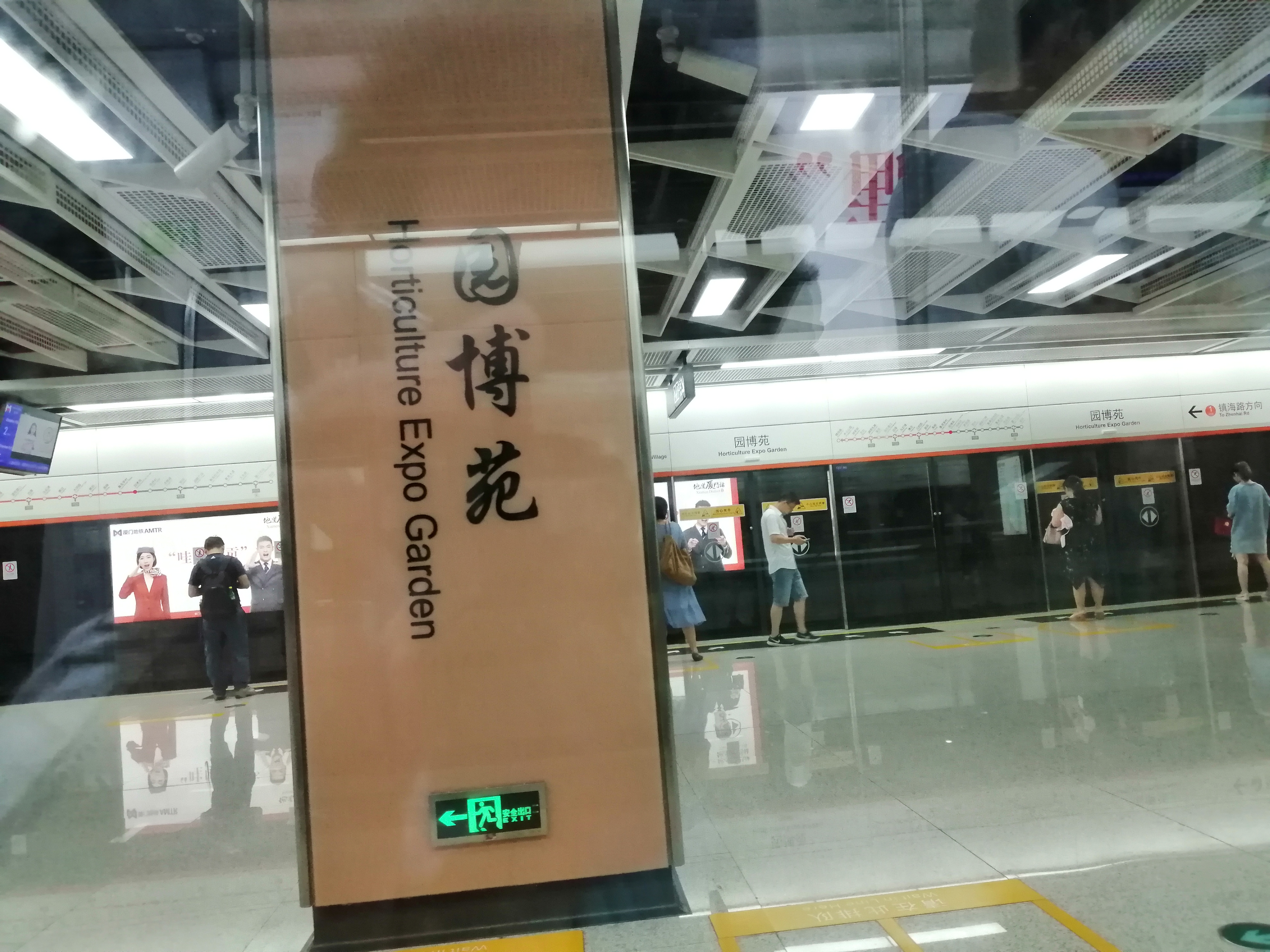 Platform of Horticulture Expo Garden station 中文（中国大陆）: 园博苑站站台